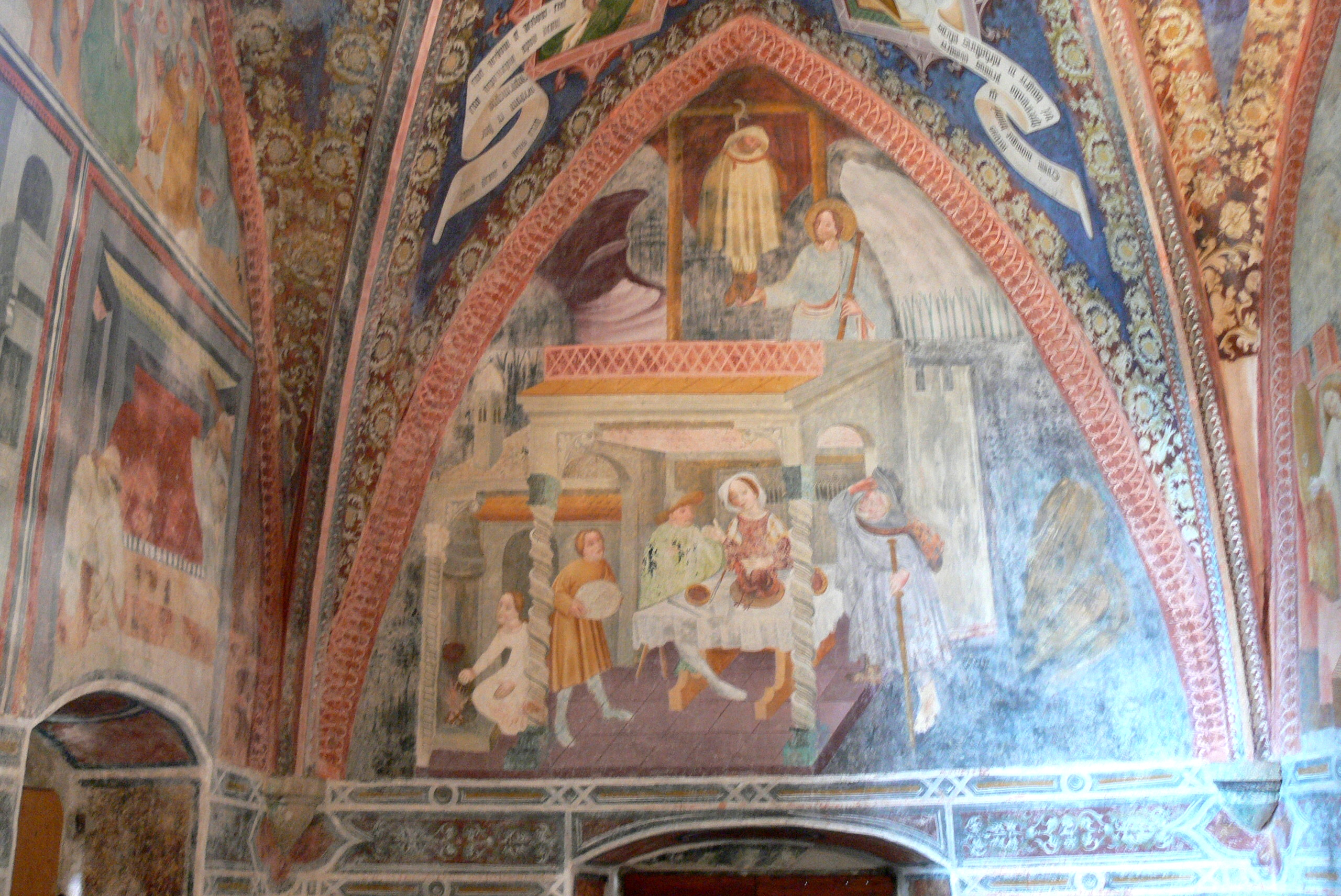 Tramin ( South Tyrol, Italy ). Saint James church in Kastelaz: Gothic frescos ( 1441 ) by Ambrosius Gander - Miracle of the cock by saint James.